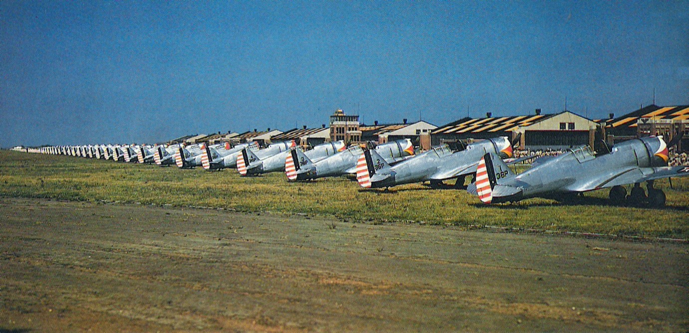 U.S. Army Air Corps Curtiss P-36A Hawk fighters of the 36th Pursuit Group at Langley Field, Virginia (USA), in 1940.